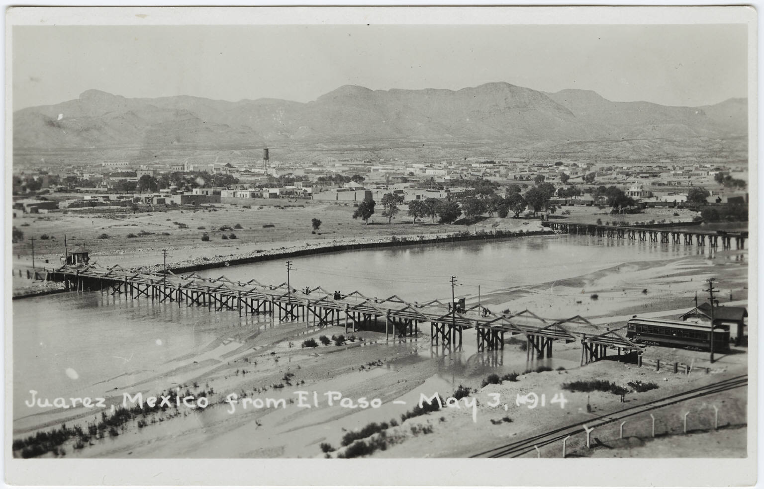 Postcard or print of a photo taken during the Mexican Revolution.